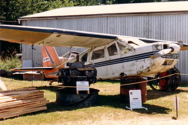 Found Centennial 100 at the Canadian Museum of Flight on 23 July 1988.